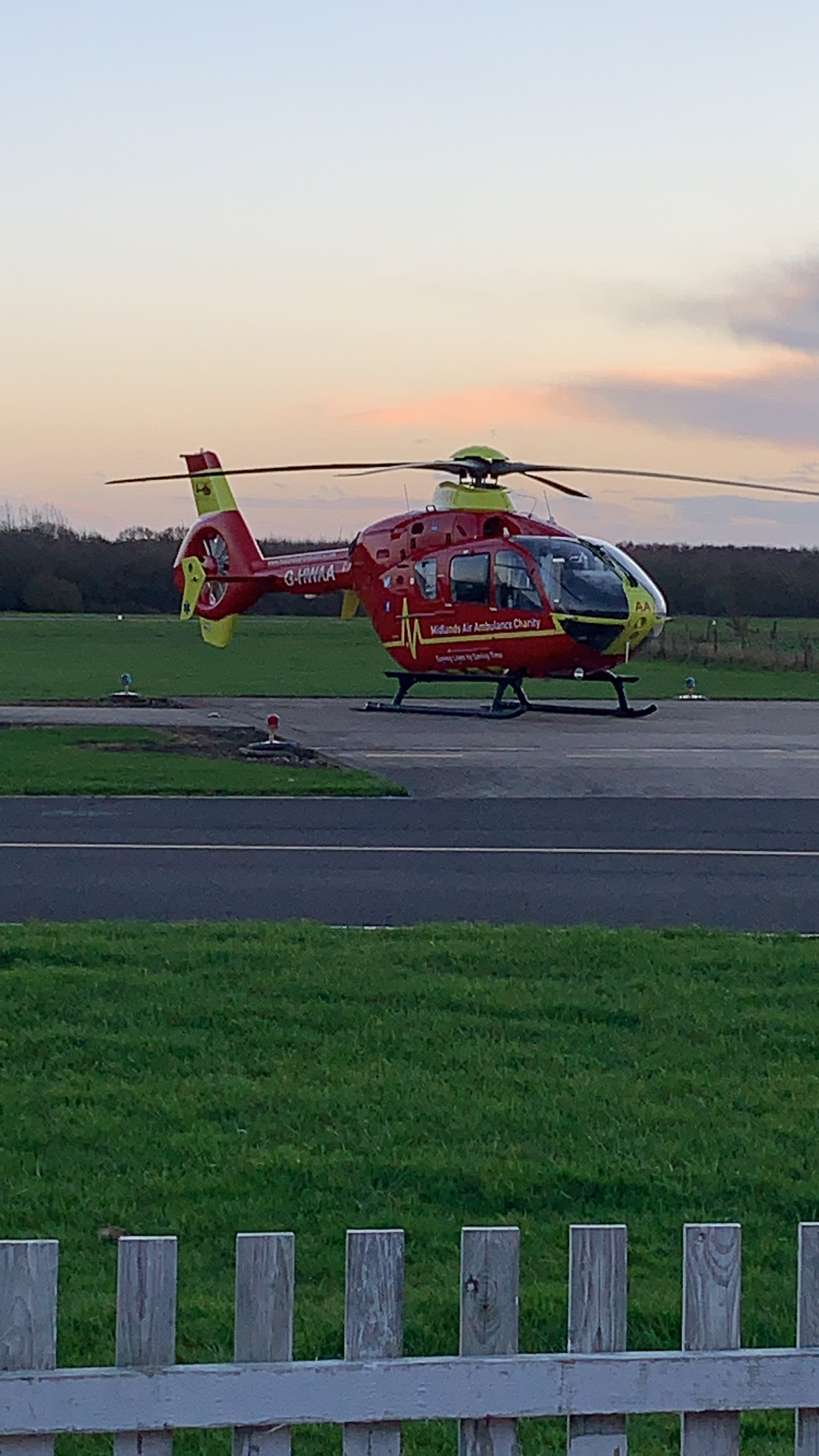 Helimed 09 G-HWAA at Tatenhill airbase at sunset